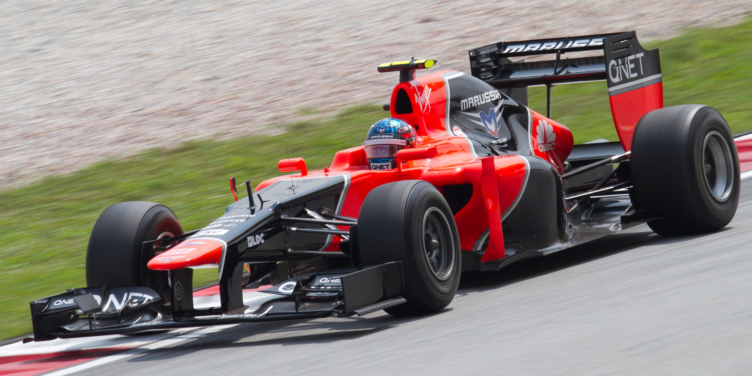 Formula One 2012 Rd.2 Malaysian GP: Charles Pic (Marussia) during the first practice session on Friday.